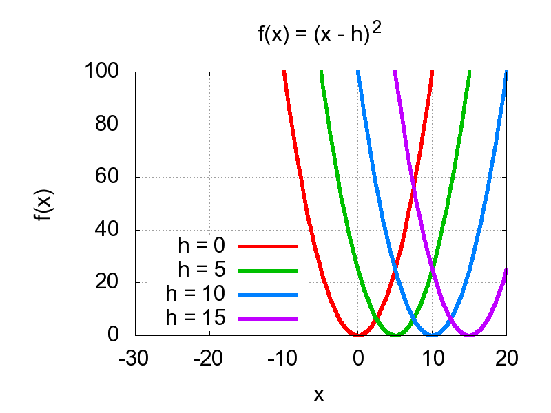 graph of quadratics with horizontal shifts